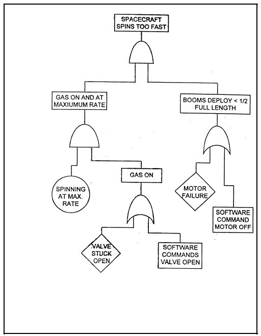 Example of High Level Fault Tree